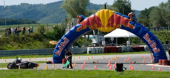 TU Graz during FSA's autoslalom event